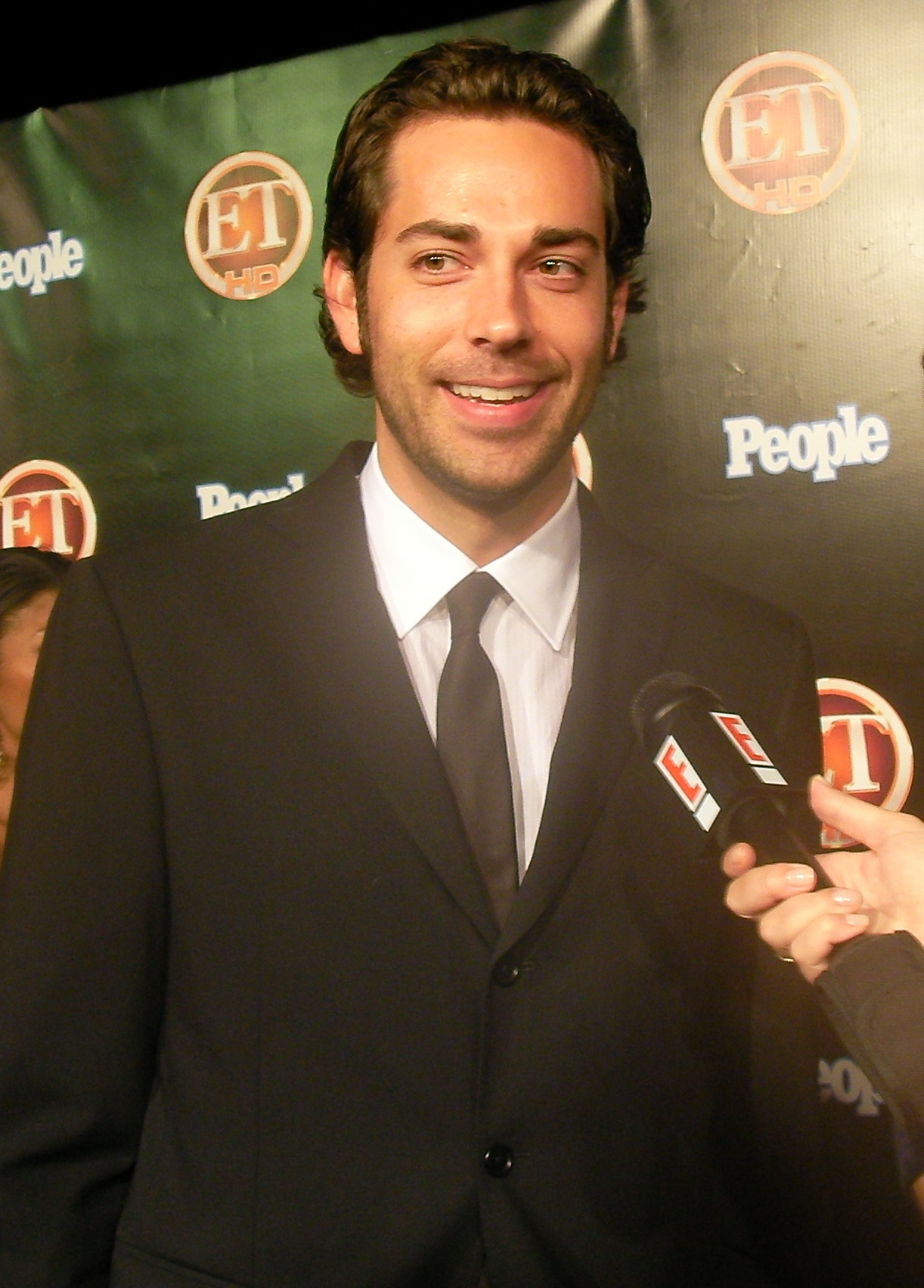 American actor Zachary Levi at the ET Post-Emmys Party, Walt Disney Concert Hall, Sept. 21, 2008